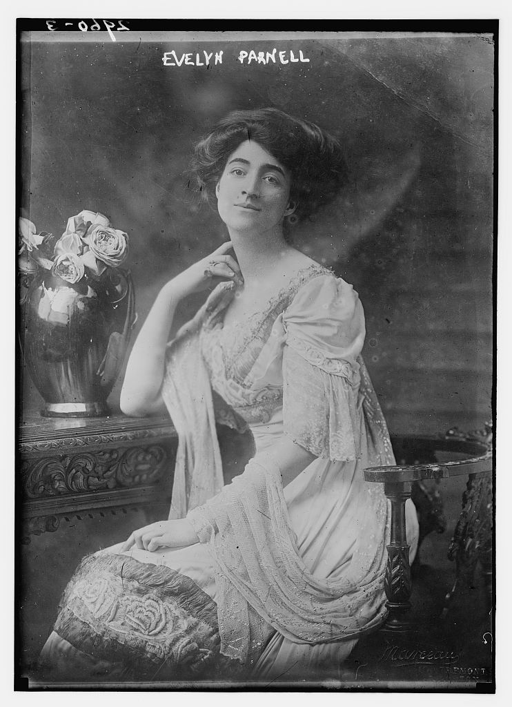 Bain News Service,, publisher. Evelyn Parnell